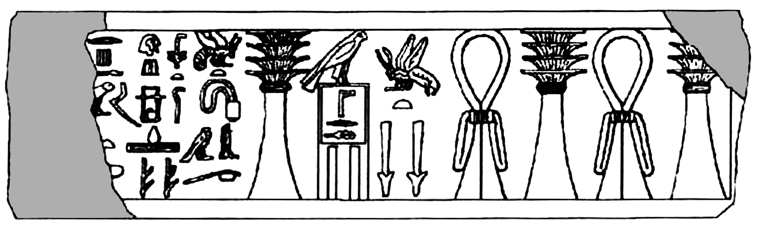 Redrawing of Inscription of Statue base Inscription of JE 49889. Shows name and titles of Imhotep, and Name of Pharao Netjerichet (Djoser). Damaged areas are marked in gray